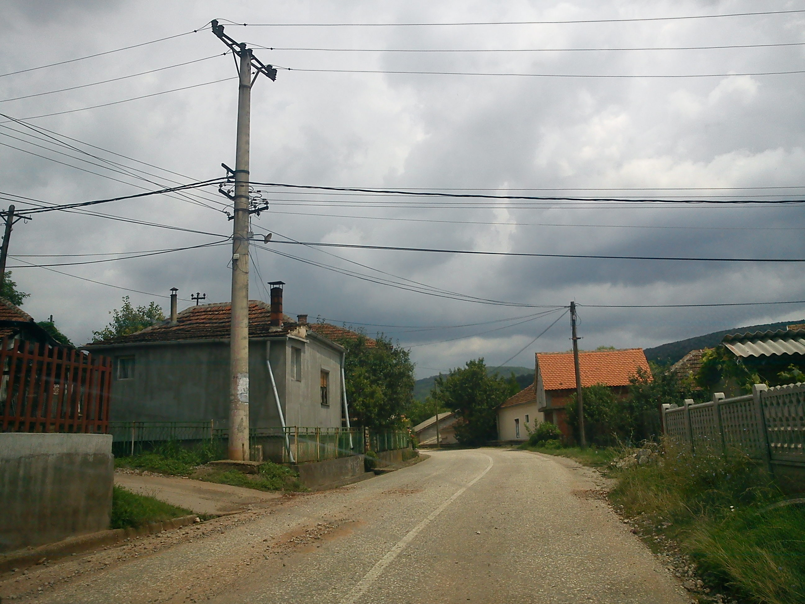 Village of Senje, Šumadija, Srbija.